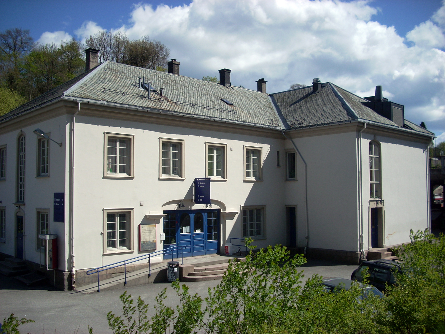 Arendal train station, Arendal, Norway